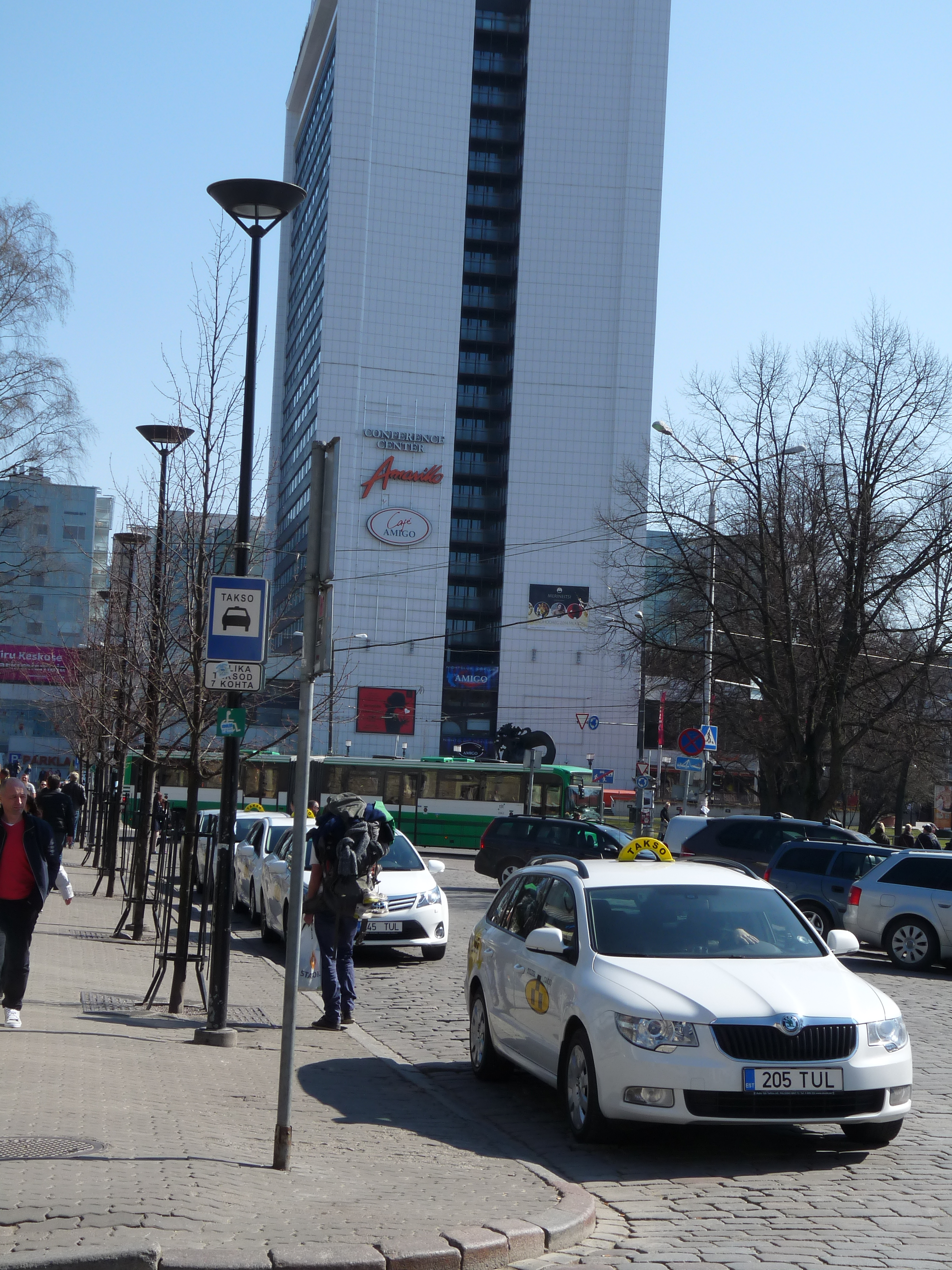 Taxis in Tallinn, Estonia